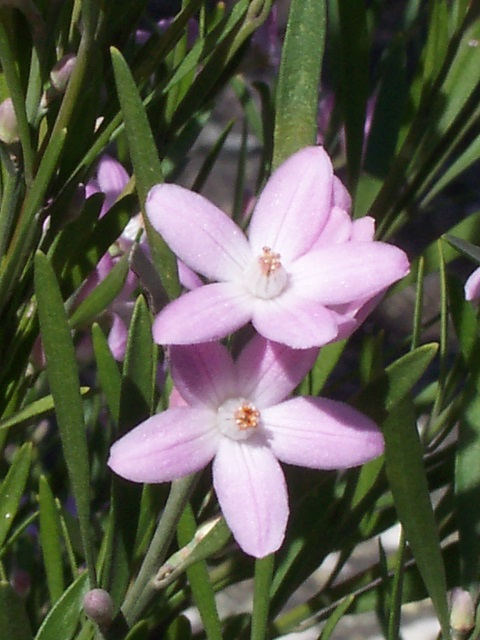 Eriostemon_australasius at Ku-ring-gai Chase National Park